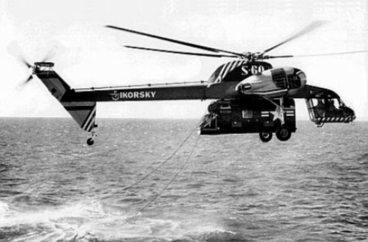 A Sikorsky S-60 helicopter during minesweeping tests.